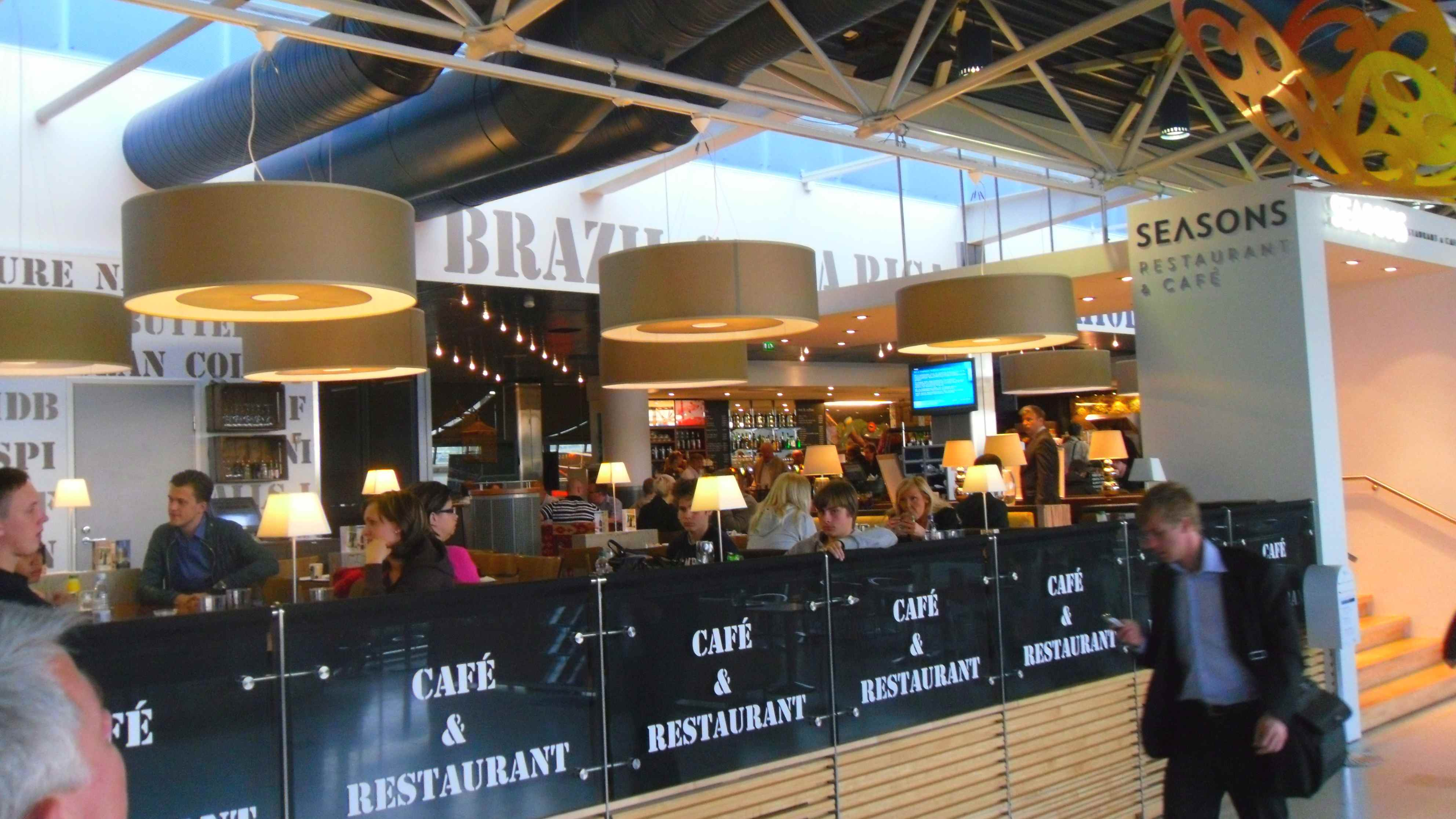 Seasons restaurant and cafe at Helsinki-Vantaa Airport, terminal 1